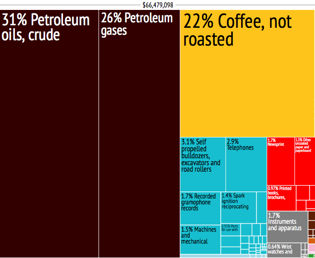 East Timor Export Treemap from MIT Harvard Economic Complexity Observatory